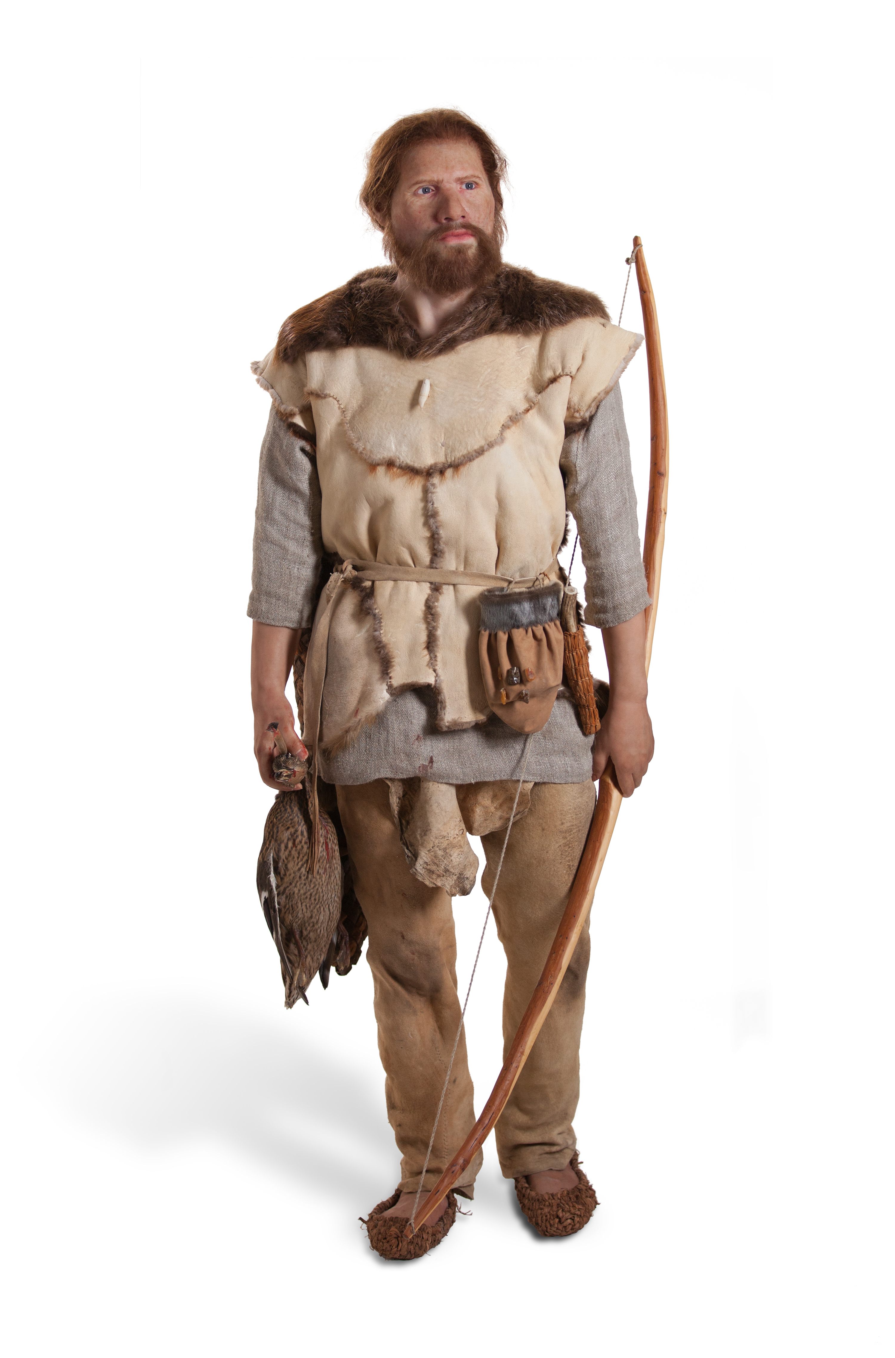 Cees the stone age man, reconstruction based on archeological finds